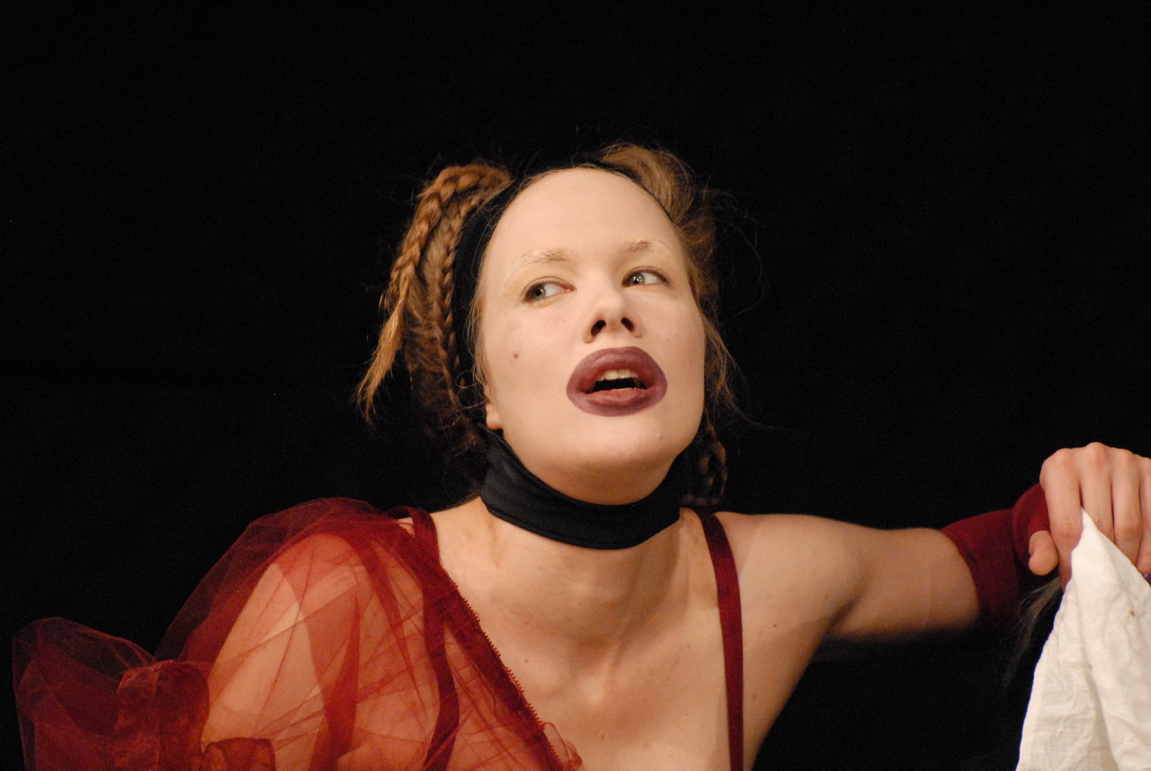 "Jucuca" by Slobodan Obradović, directed by Nemanja Petronje; Drama of the SNT, Novi Sad, 2009-2010; Milica Grujičić Srpski (latinica): "Jucuca", Slobodana Obradovića u režiji Nemanje Petronje; Drama SNP-a, Novi Sad, 2009-2010; Milica Grujičić Српски (ћирилица): "Јуцуца", Слободана Обрадовића у режији Немање Петроње; Драма СНП-а, Нови Сад, 2009-2010; Милица Грујичић